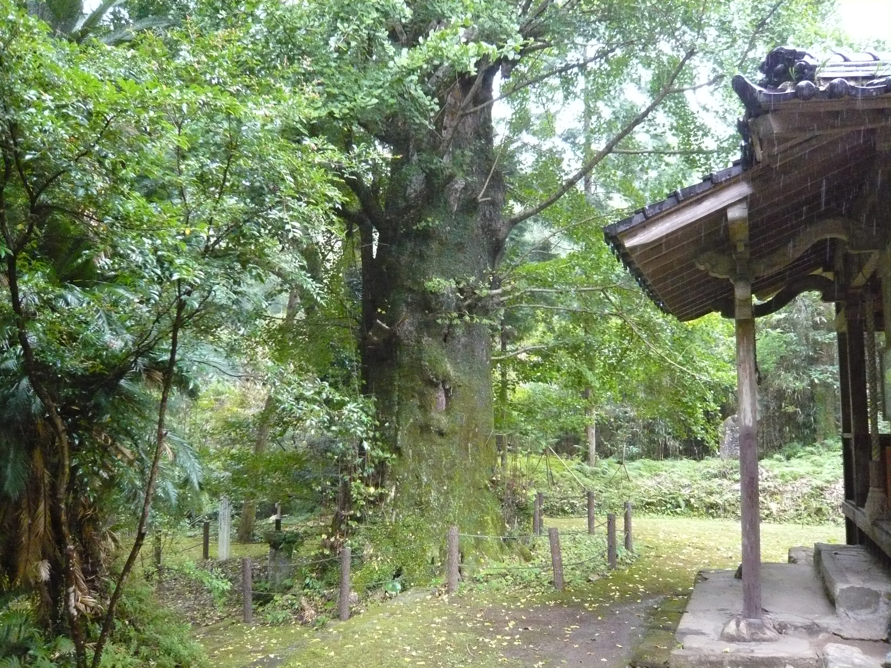 A Big Ginkgo Tree Aira Kagoshima JAPAN